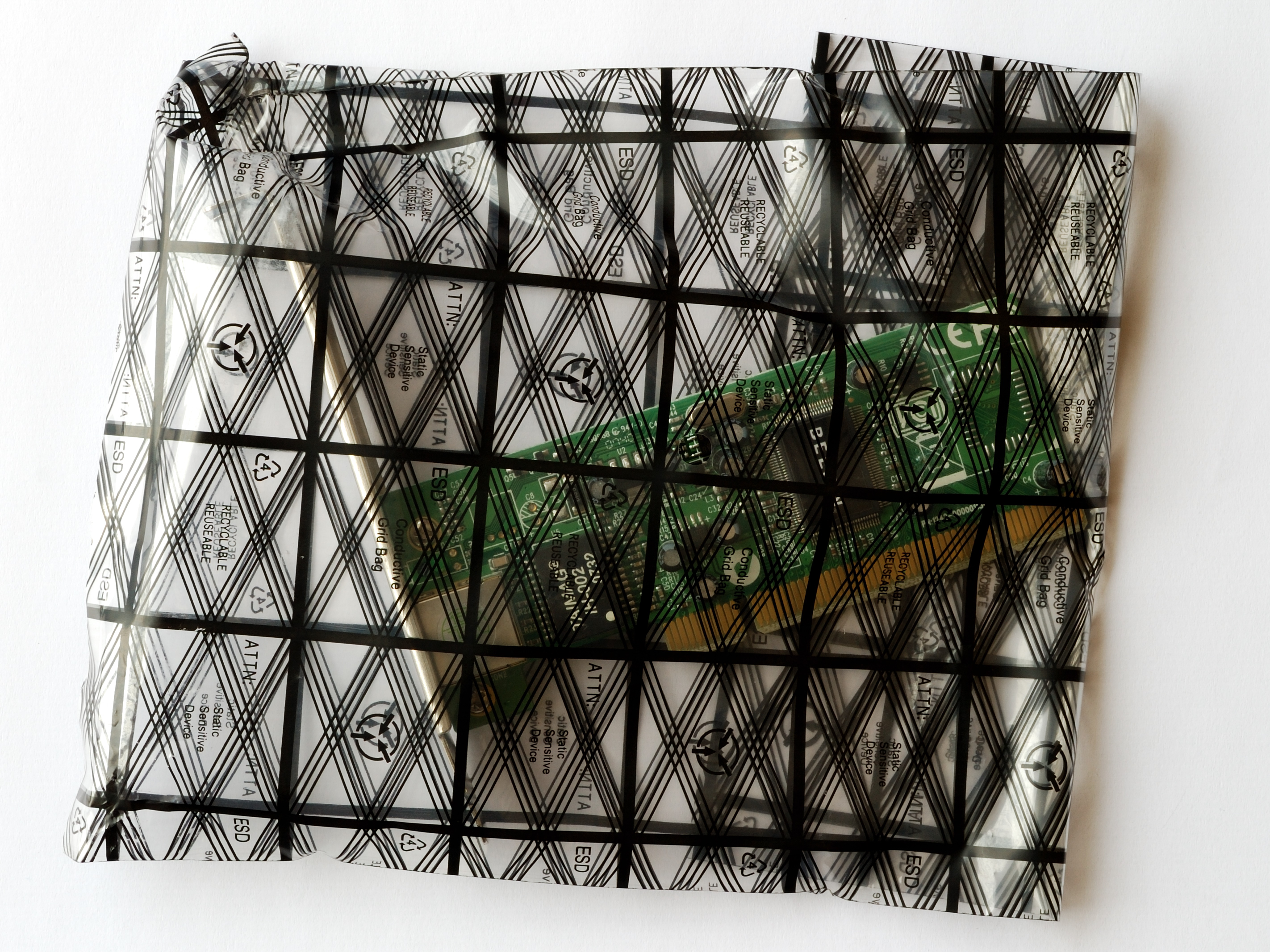 Gigabit Desktop Network PCI Card inside an antistatic bag